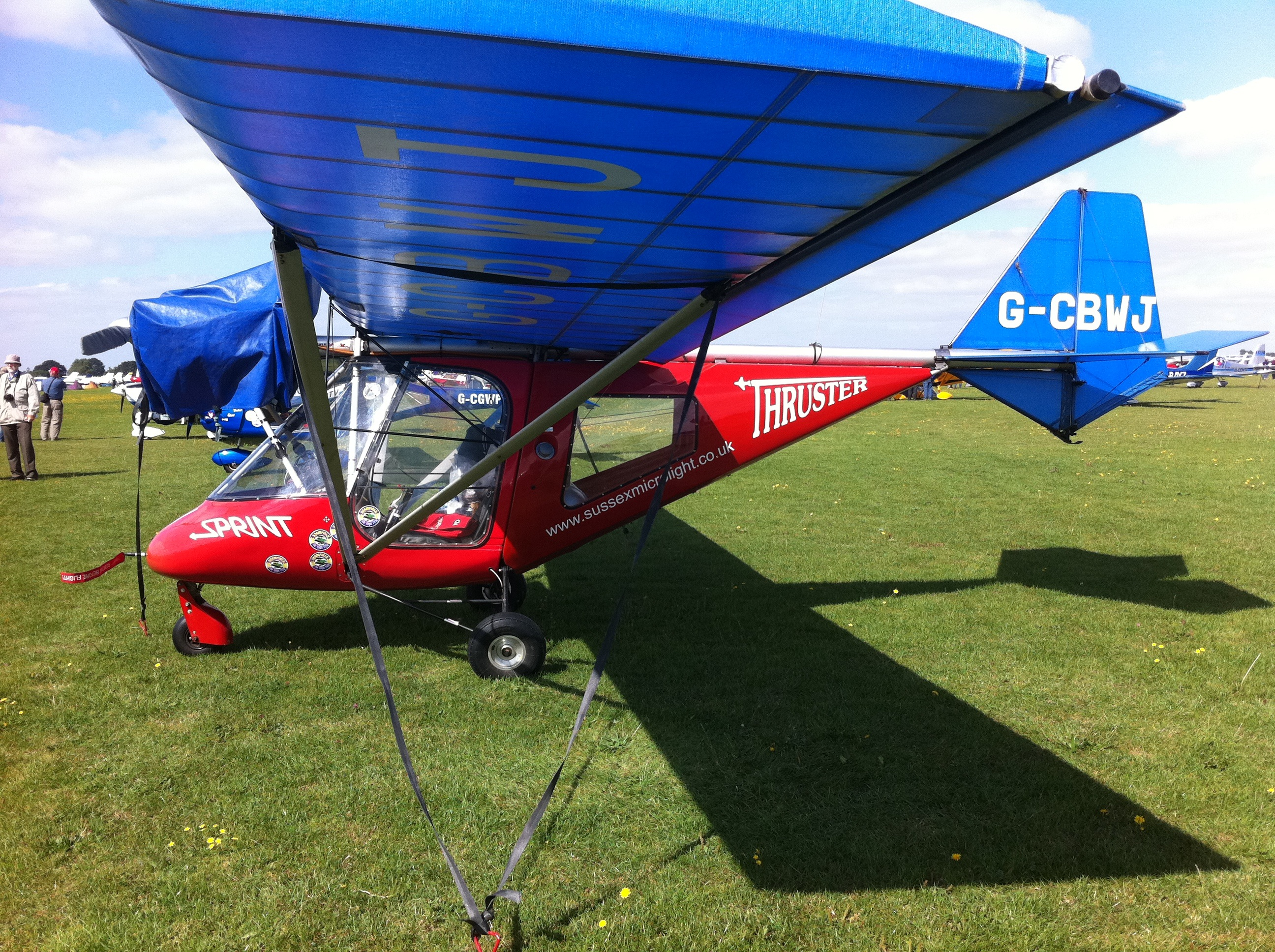 At Sywell Airfield